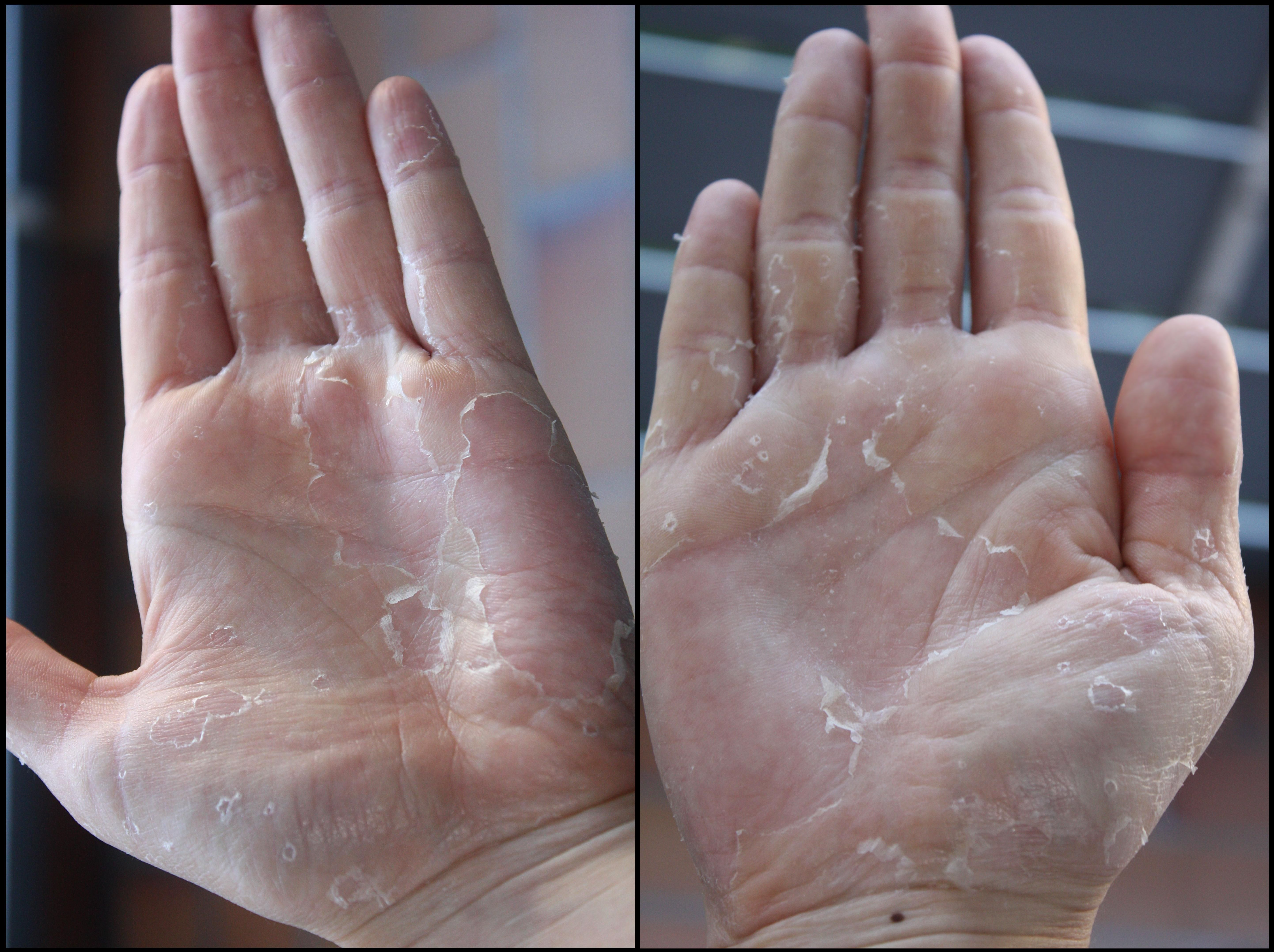 Desquamation of skin from hands: a symptom of Scarlet fever